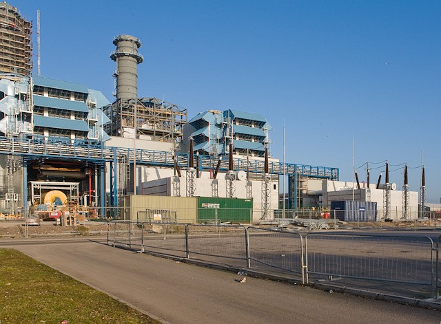 Marchwood Power Station, East Road. Under construction. The station combines gas and steam turbines to generate 824 MW at 58% efficiency; it will cost £380m to build, . I presume that the blue vents are air intakes for the gas turbines, and that the two cylindrical stacks are chimneys. Centre right can be seen the two step-up transformers that convert the output of the generators from about 27 KV to the 400 KV needed for feeding into the national grid. Each transformer is surrounded by a white concrete wall to limit damage should it explode or catch fire. Each phase of the 400 KV output passes via an underground cable to the National Grid Substation seen at left of 1107787